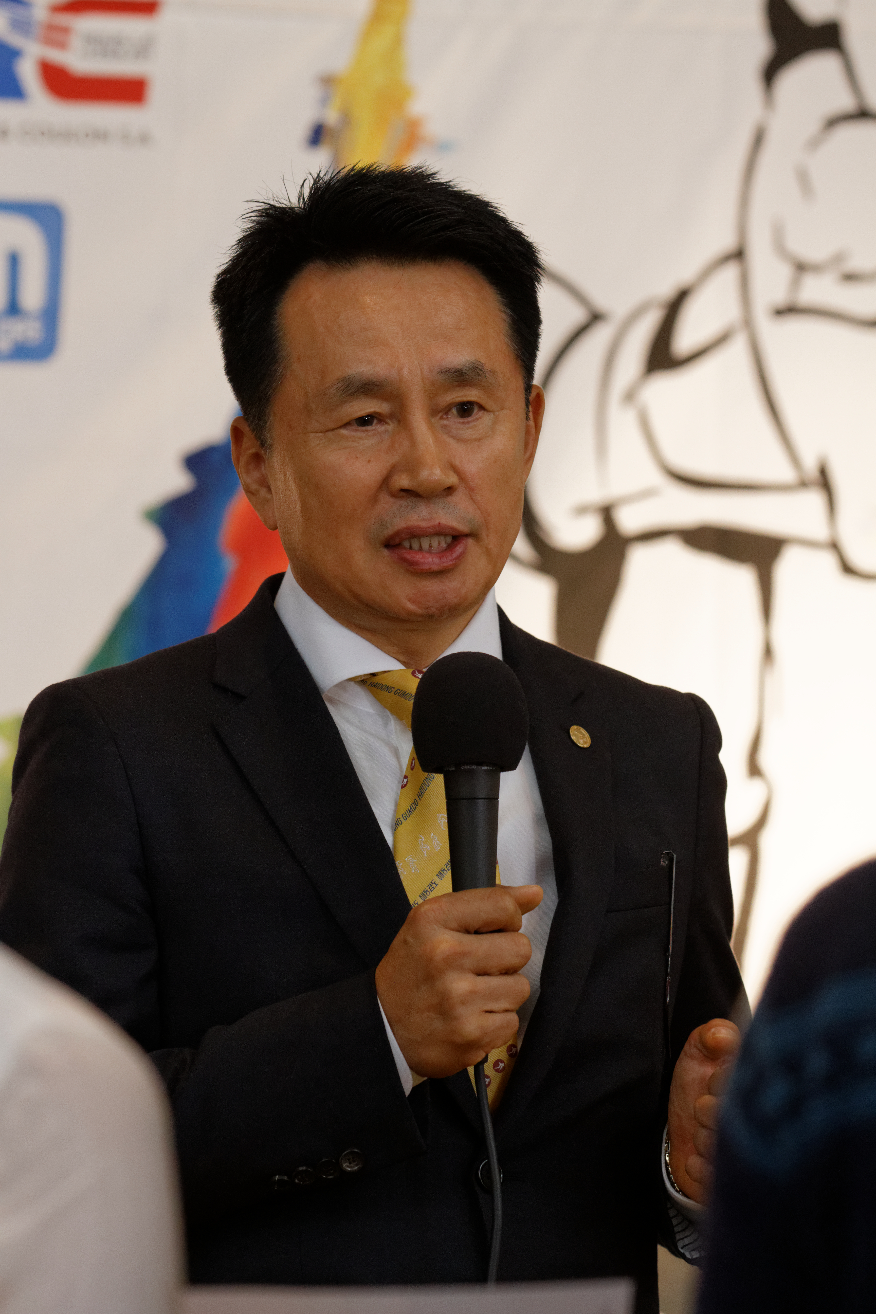 2nd European Haidong Gumdo Championships. Kim Jeong-Ho, president of the federation.